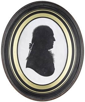 A silhouette of Peter Birt. Height: 3.43 in (8.71 cm). Painted on plaster